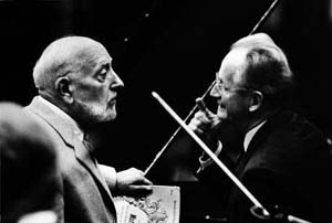 Ernest Ansermet (left) and Wilhelm Kempff (right)